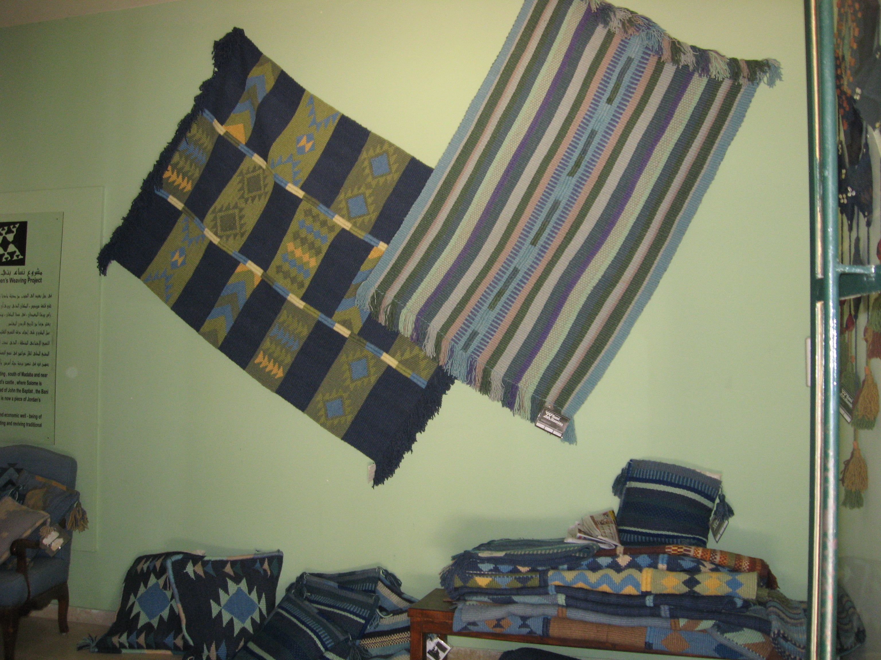 Picture of Bani Hamida weavings in Jordan River foundation, 2008.